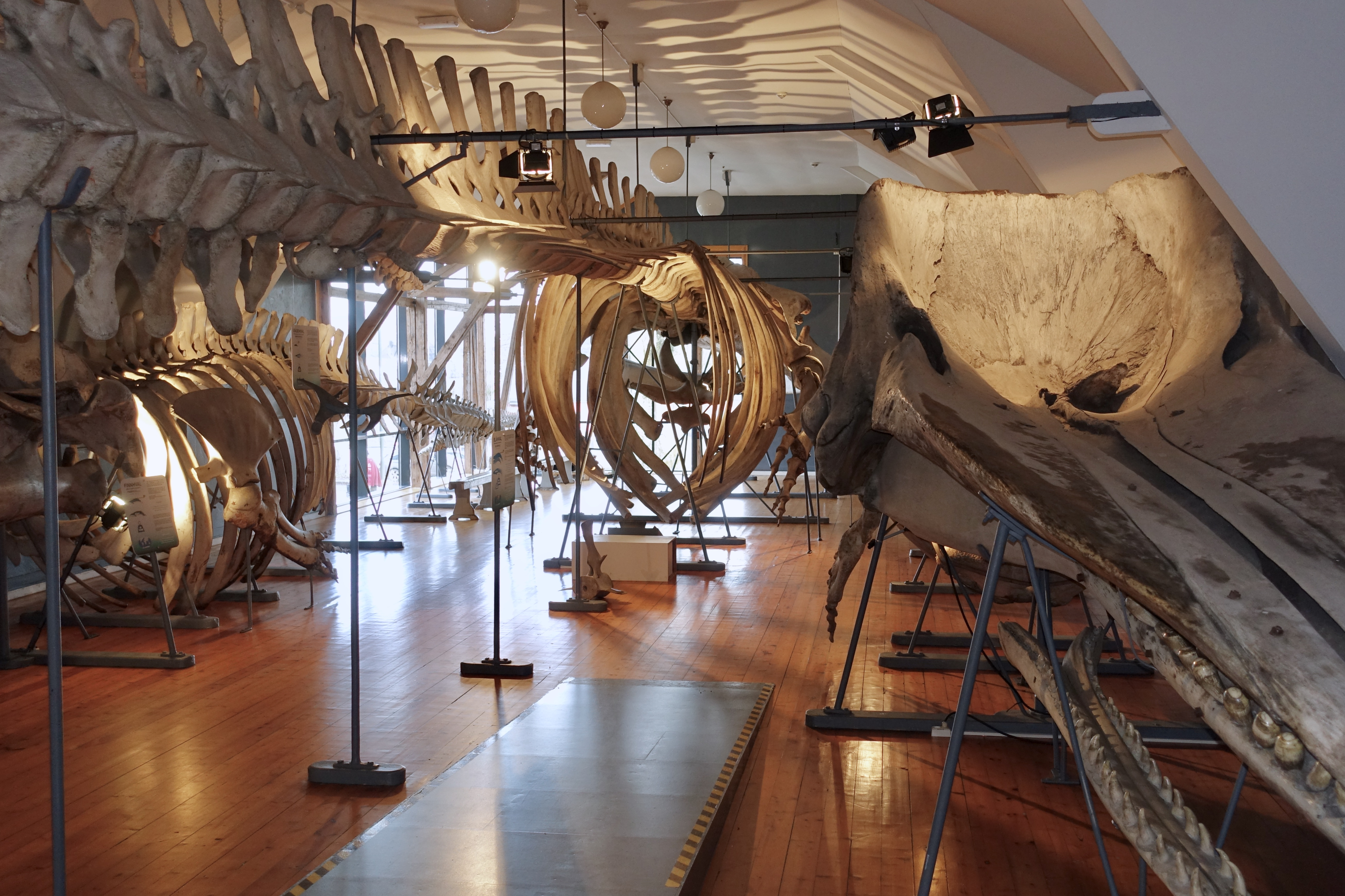 Photo taken on January 21st, 2020 in "the Whale Hall" (in Norwegian: Hvalhallen) of the Slottsfjellsmuseet, a local history museum in Tønsberg, Norway. The exhibition in the hall (build 1939) shows old skeletons of whales (hvalskjeletter), specimens of whale fetuses (fostre av hval), etc. connected to the city's whaling history. The skeletons are from a fin whale (finnhval, Balaenoptera physalus) from 1895, a record 27-metre-long blue whale (blåhval, Balaenoptera musculus) from Iceland 1901, a mink whale (vågehval), a sperm whale (spermasetthval, spermhval, Physeter macrocephalus) from 1896, a bottlenose whale (nebbhval, Hyperoodon ampullatus), a killer whale (spekkhogger, Orcinus orca), a right whale (nordkaper, Eubalaena glacialis), etc.